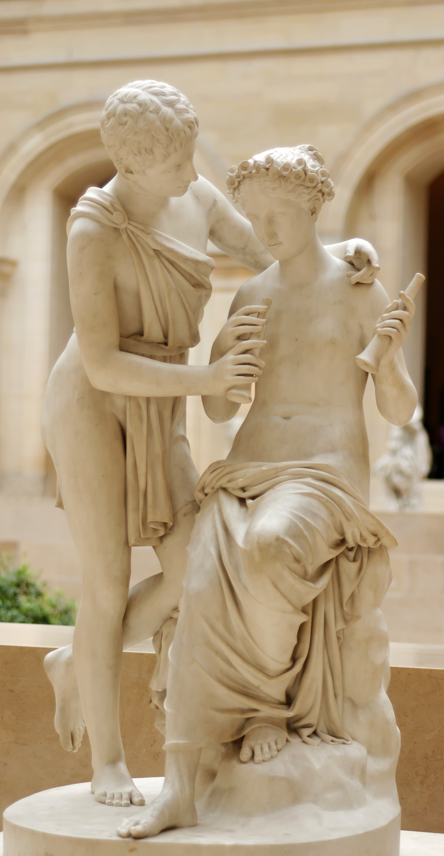 Marble, exhibited at the Salon of 1827 (study exhibited in 1824-25).